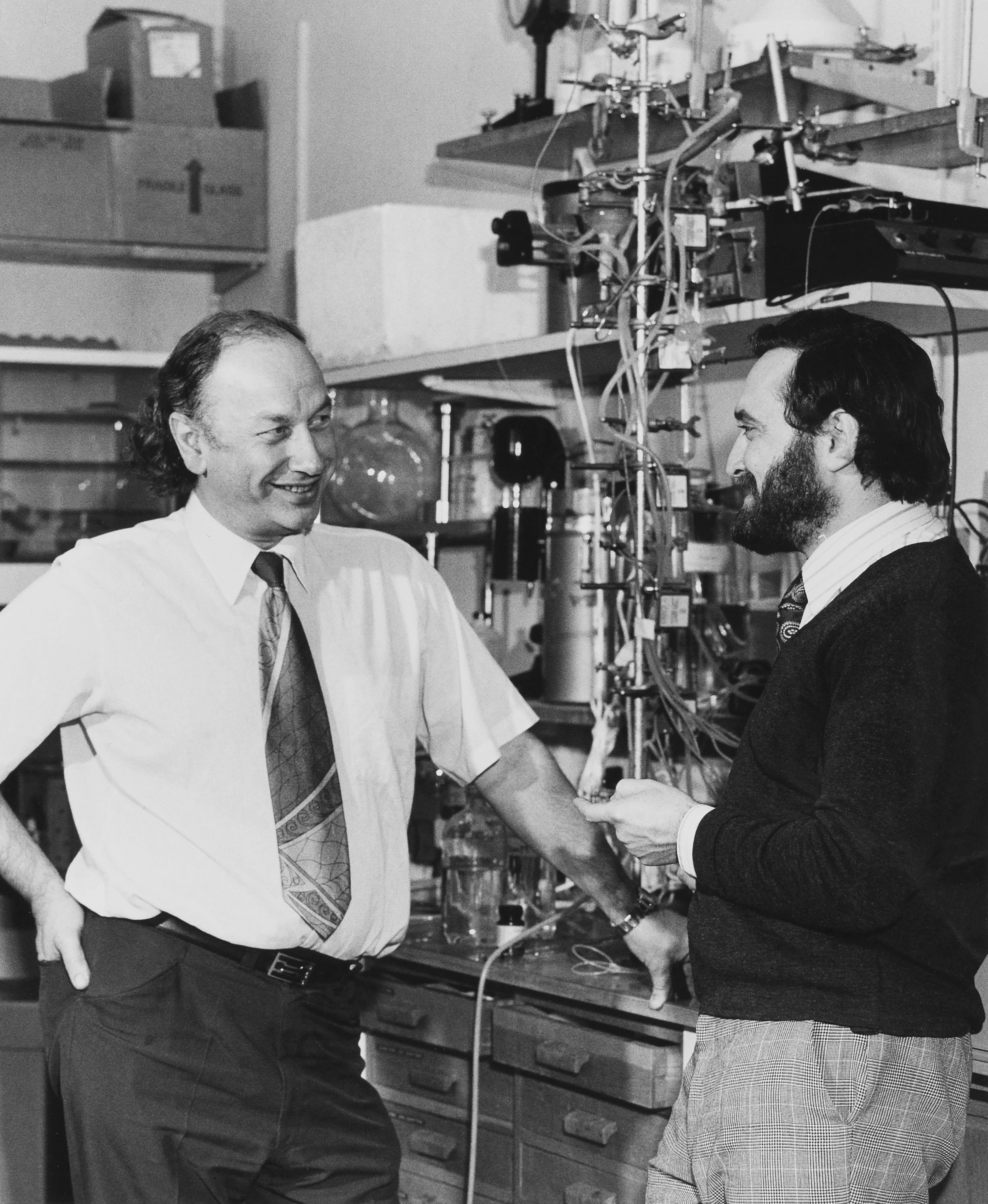 Photograph of Sir John Vane (left) and Dr Salvador Moncada in a laboratory, with chemical apparatus in the background. Picture probably taken in the Wellcome Laboratories at Beckenham, Kent.